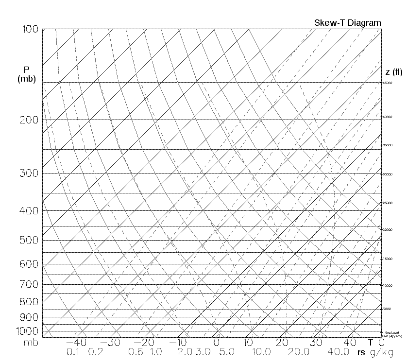 Thermodynamic diagram called a Skew-T used by meteorologist in many countries to plot soundings of temperatures and humidity versus pressure. Once plotted, the data permit to assess the (in)stability of the atmosphere and the layers of clouds and determine cap strength, convective temperature, forecasting temperatures. The vertical axis is the Pressure, the temperature isolines are the one at 45 degrees angle to the right, the curved lines are the dry adiabatic lapse rate, the dashed lines the toward the left are pseudo-adiabatic moist lapse rate and the dashed lines to the right are the mixing ratio.